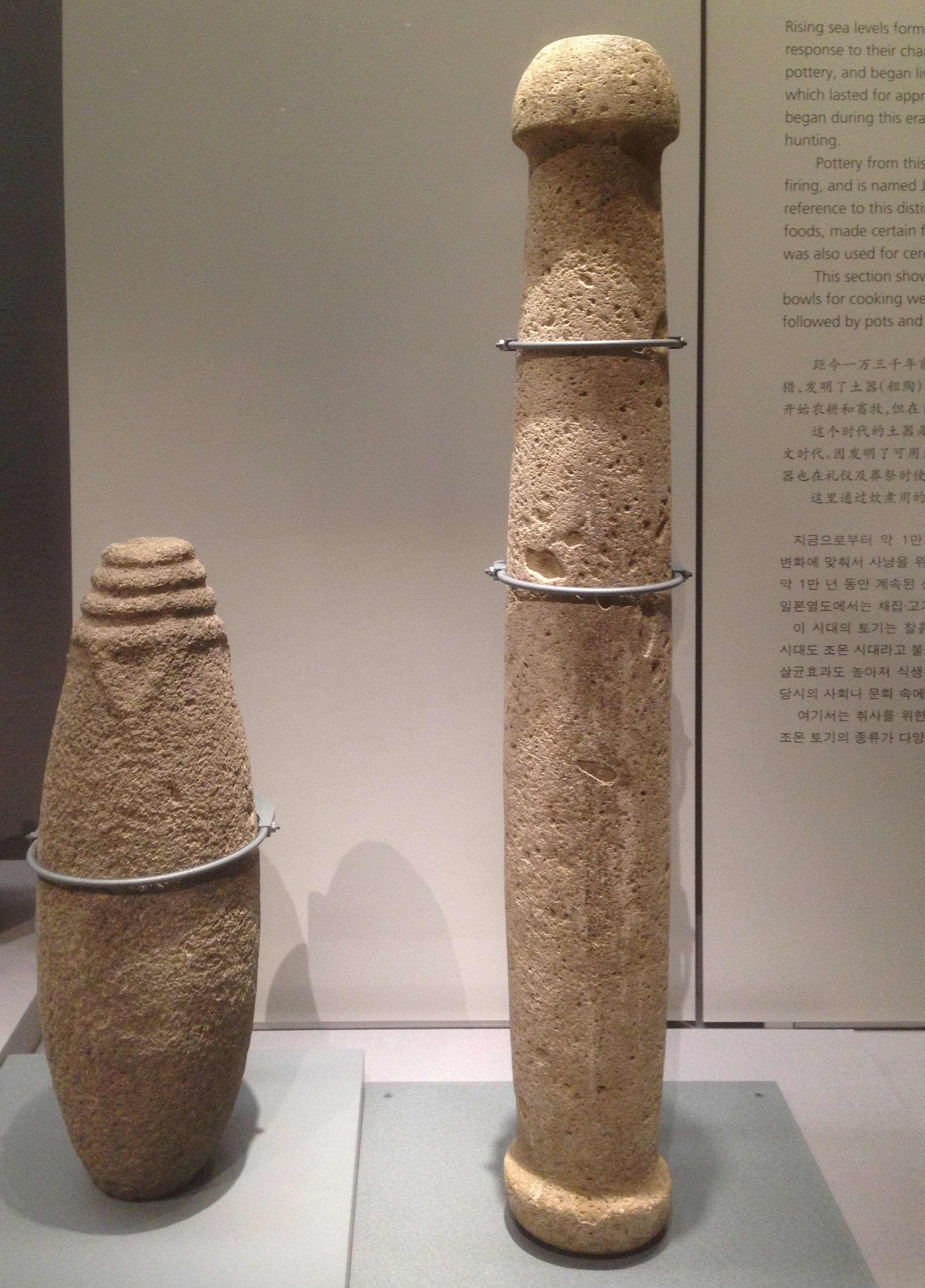 Stone rods. Left : provenance unknown. Jomon period, 3000-2000 BC. Right : from Hirabayashi, Fujikawa-cho, Yamanashi. Jomon period, 3000-2000 BC. (This type of rod - or phallique stone / mâle sexual organ image - are often placed inside pit dwellings during the Middle Jomon Period, at the rear part of a dwelling or near the hearth : Koji MIZOGUCHI, 2013, p. 108-109). Tokyo National Museum.